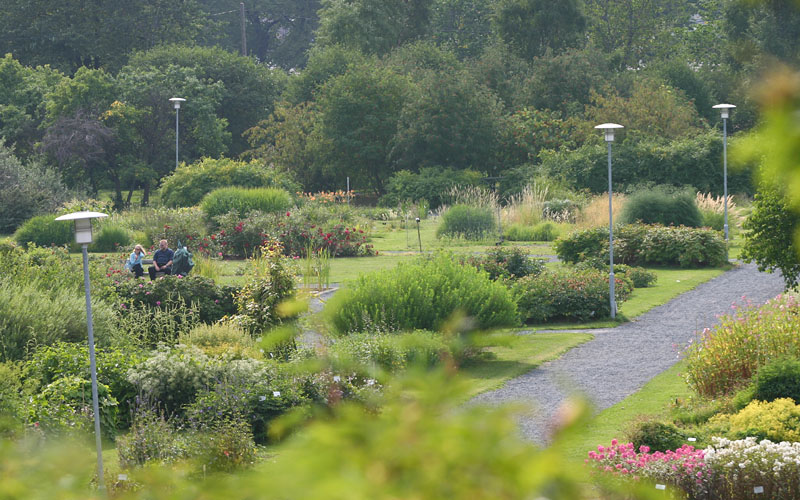 The University of Helsinki Botanical Garden in Kaisaniemi